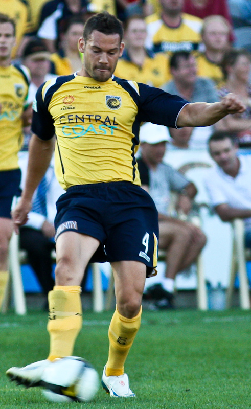 Predrag Bojić playing for the Central Coast Mariners against Sydney FC